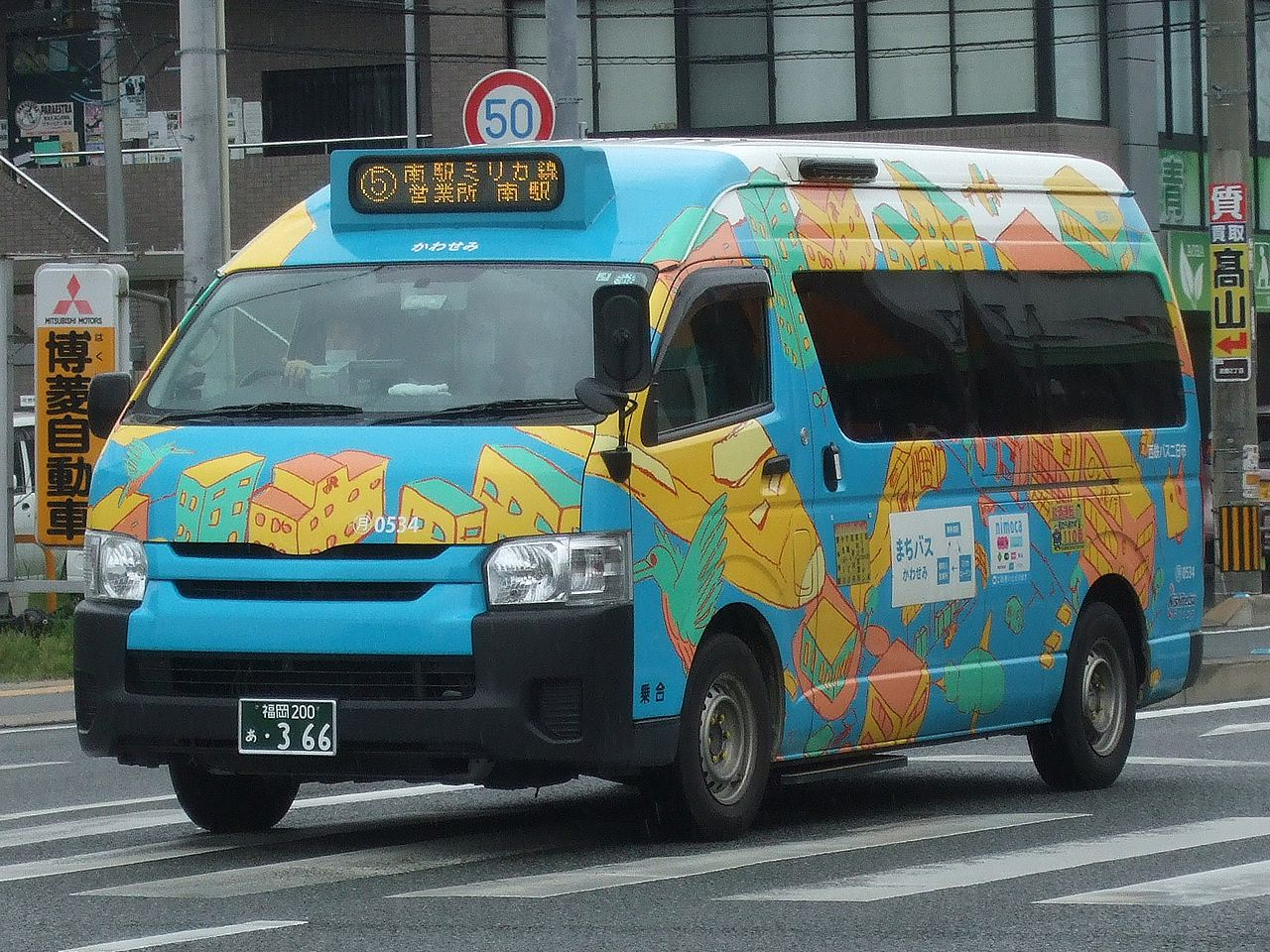 Nakagawa City community bus "Kawasemi-Bus". Company:Nishitetsu Bus Futsukaichi Belongs to:Tsukinoura Depot Use:transit bus (community bus) Car license:FOF200 A 366 Code:0534 Type:Toyota HiAce Location:in Nakagawa City, Fukuoka, Japan.